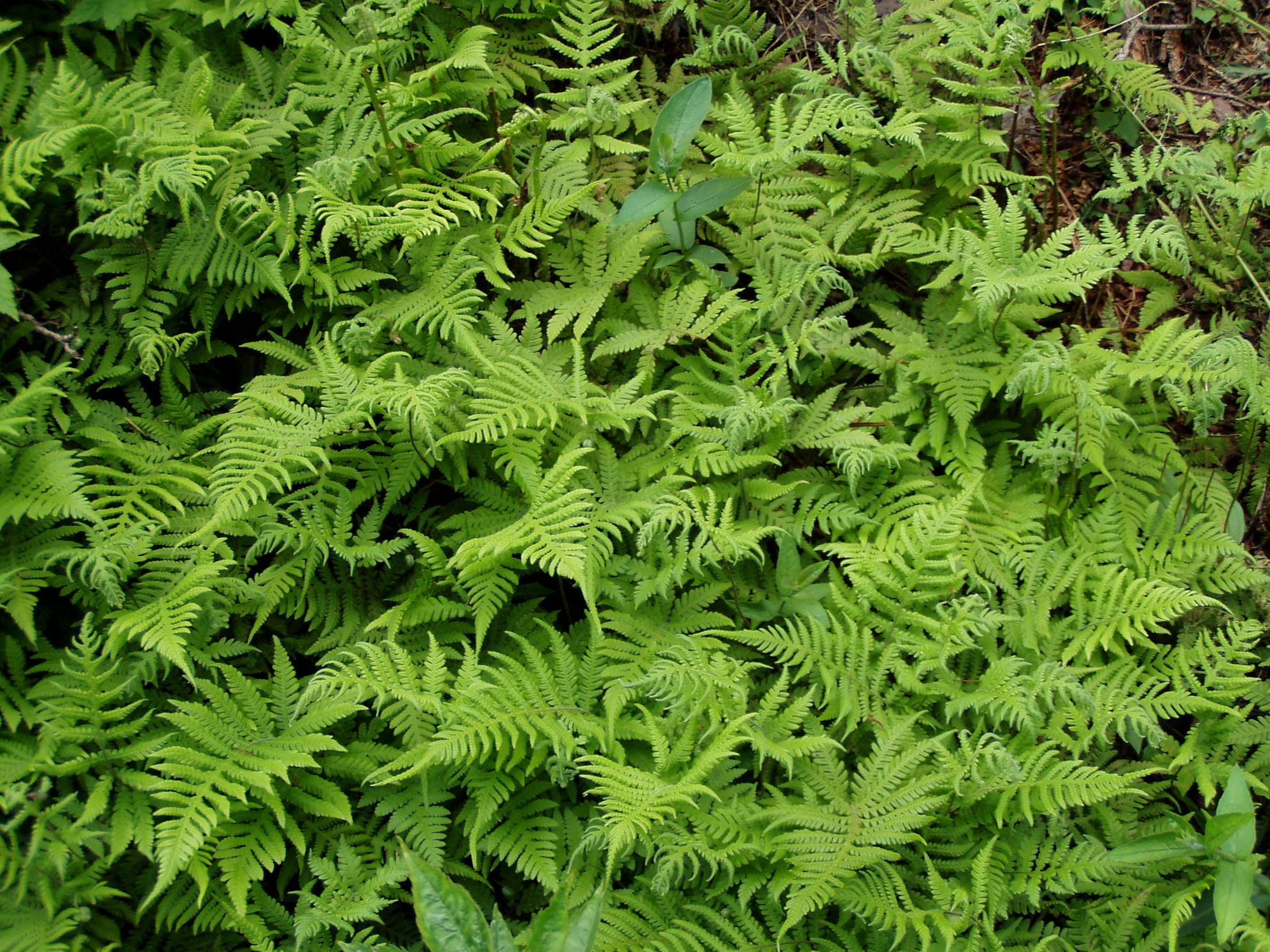 Phegopteris connectilis in a forest in Carinthia